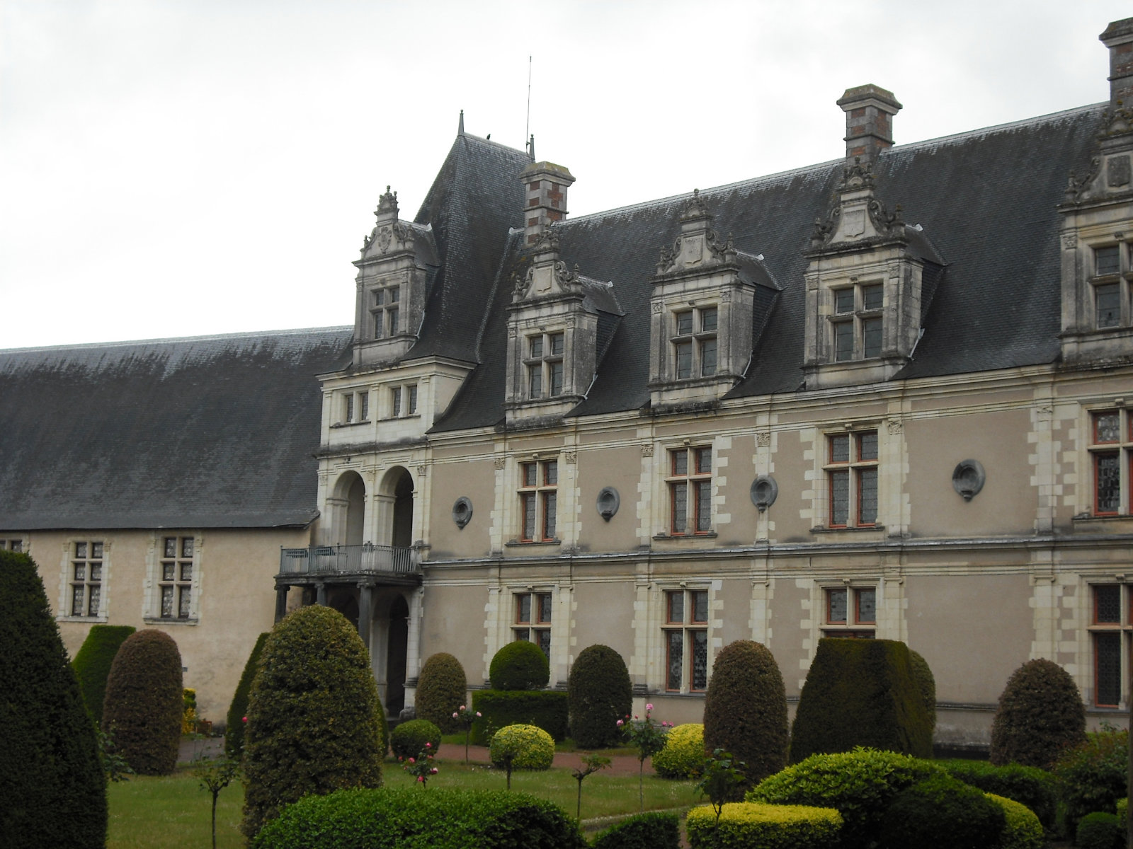 Renaissance aisle of the château in Châteaubriant, France.